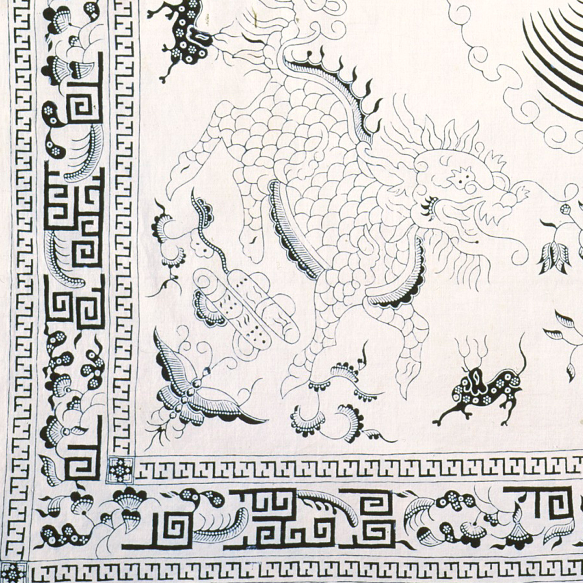 qilin